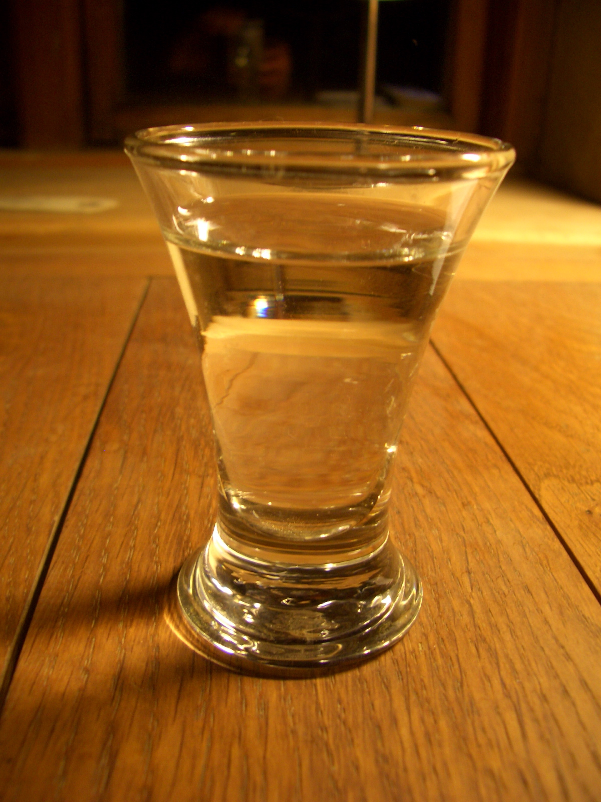 Strong liquor